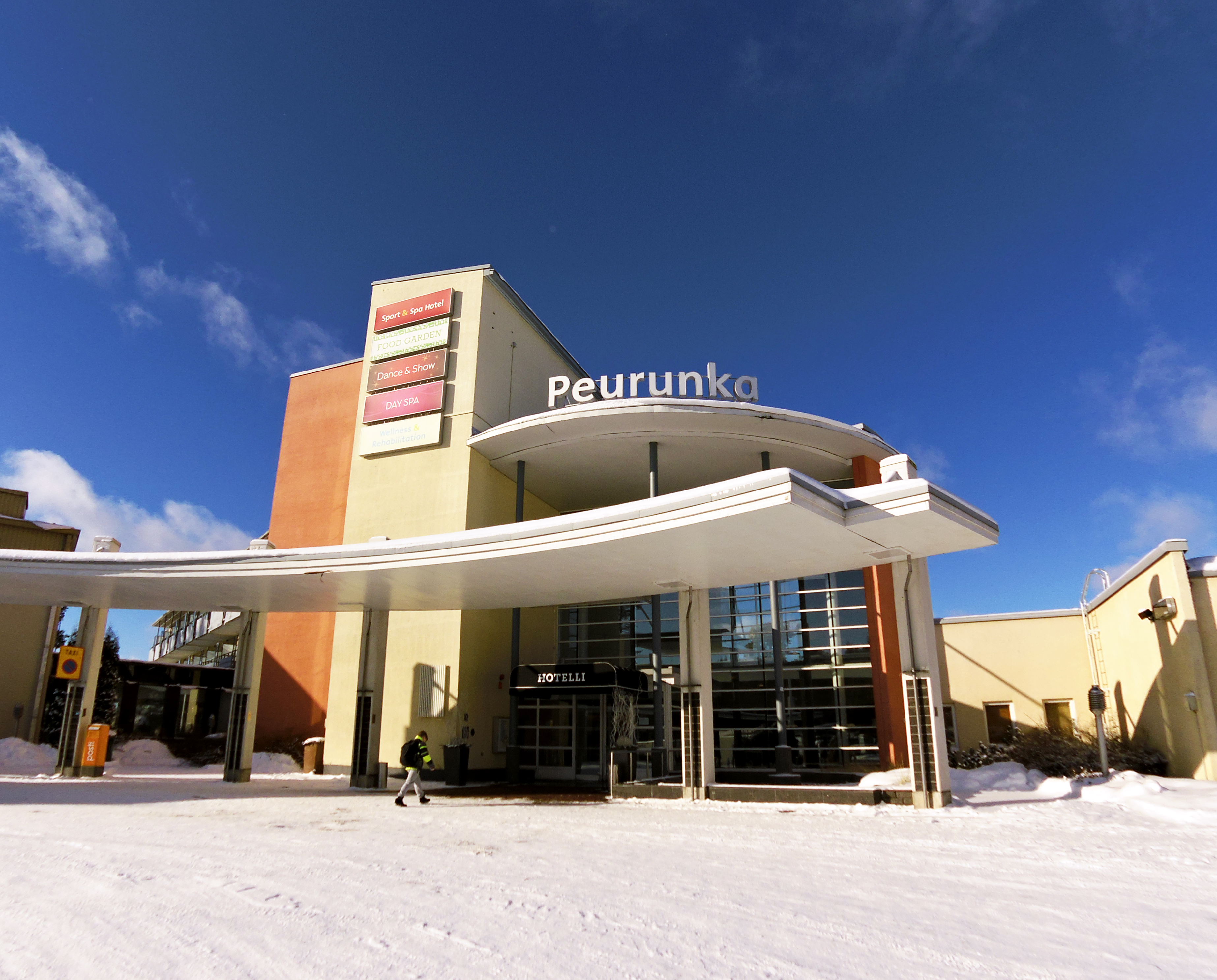 Peurunka Spa & Hotel in Laukaa, Finland.